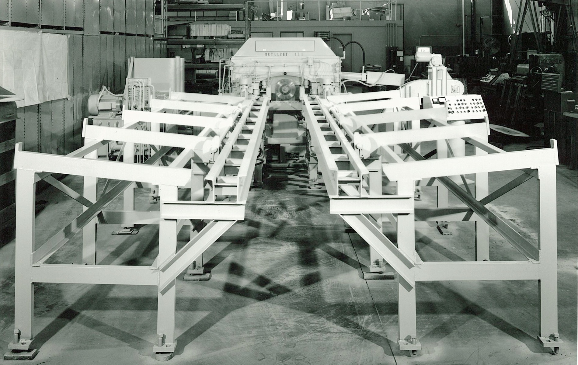 Sawing System - Metalcut